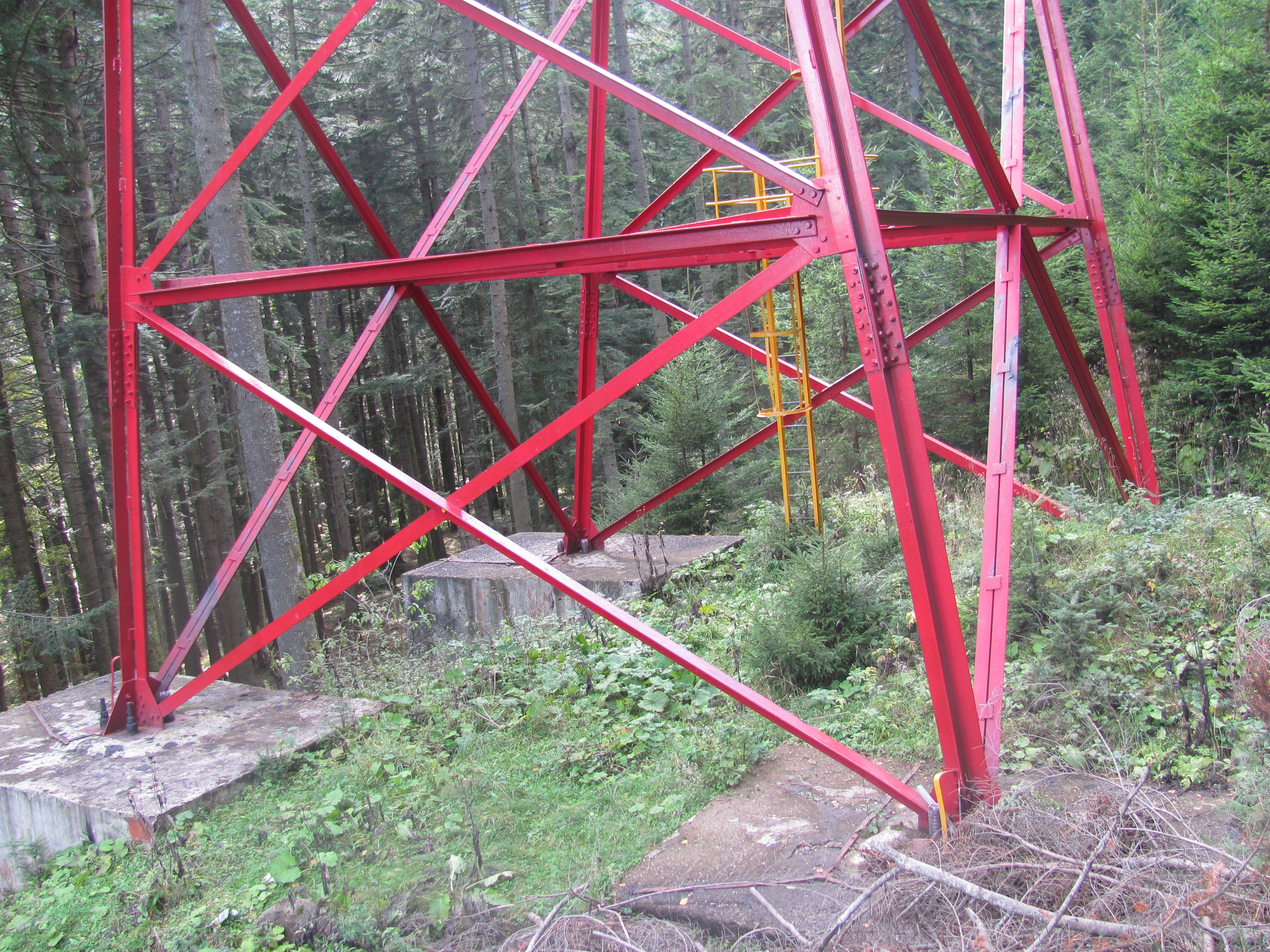 Fundația primului stâlp al telecabinei Bușteni-Babele